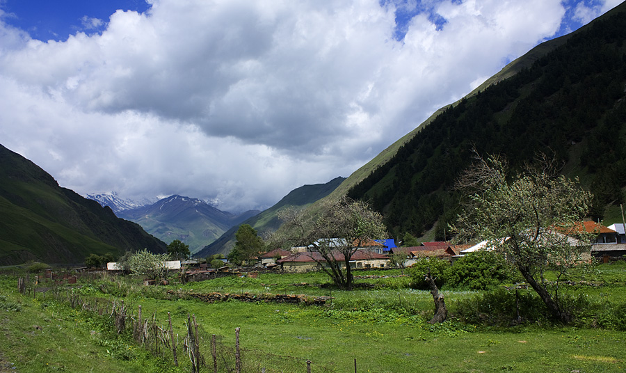 Village Karkucha, Georgia